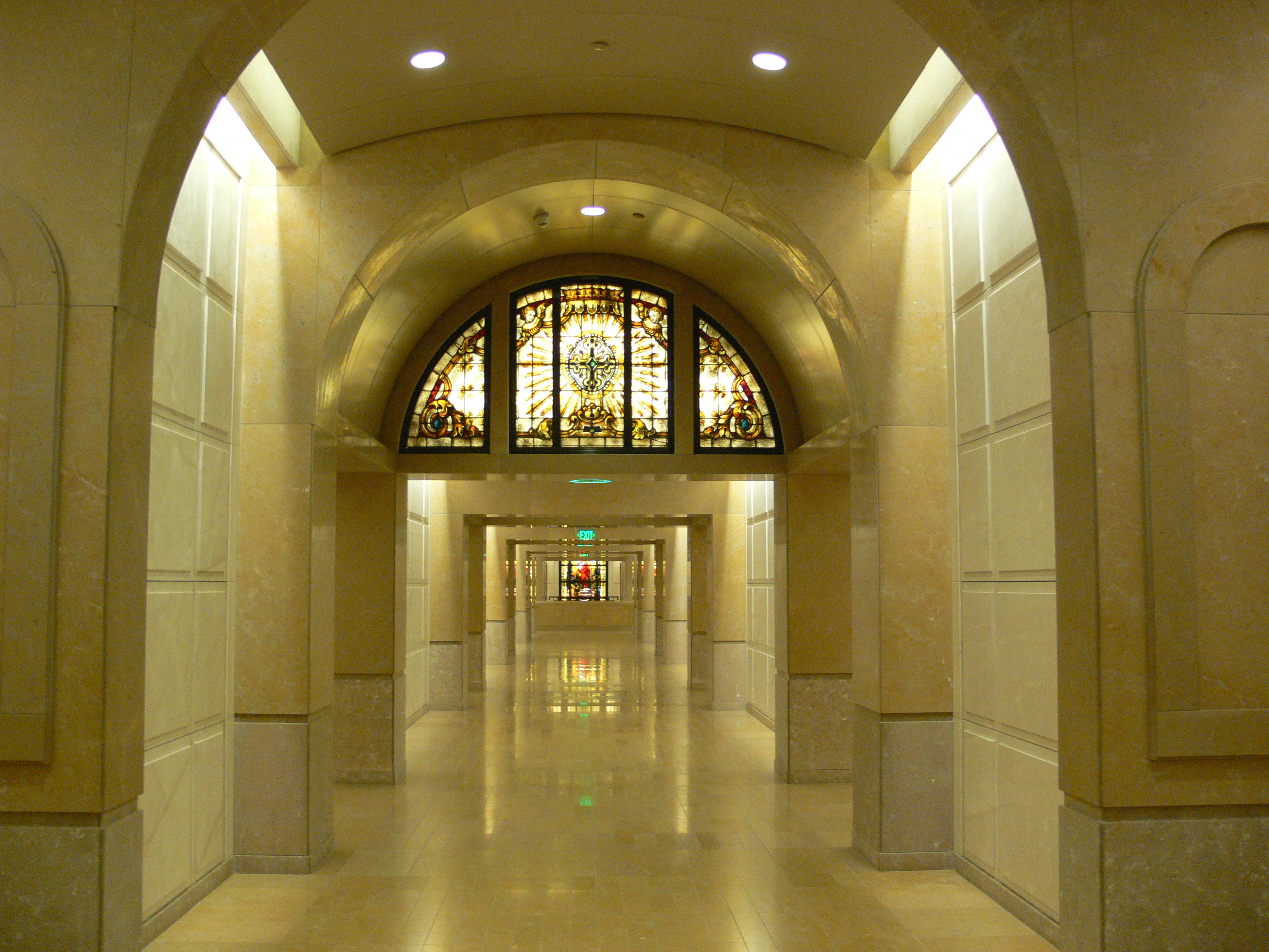 Roman Catholic Cathedral of Our Lady of the Angels, Los Angeles, California